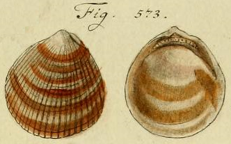 Oblimopa multistriata (Forsskål in Niebuhr, 1775), Limopsidae, Bivalvia, Mollusca